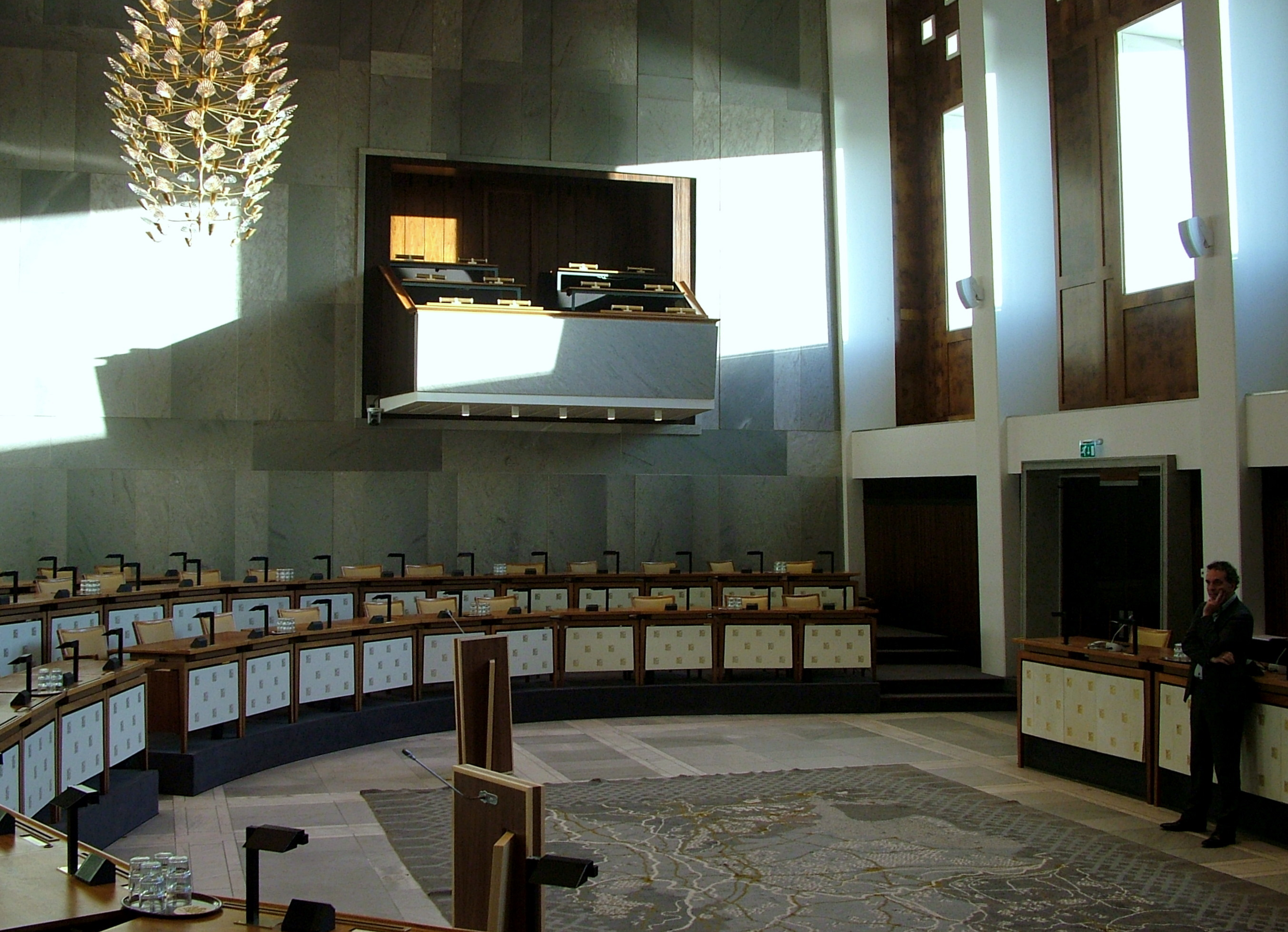 Arnhem, the Netherlands: House of the Province (Gelderland). The Hall of the regional parliament. On the right griffier (secretary) Bob Roelofs.